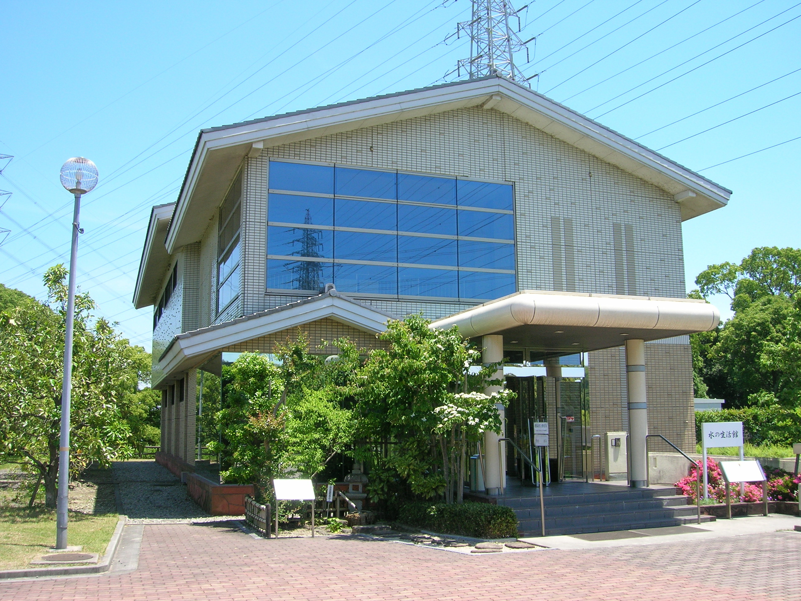 Water_and_Life_Museum (Mizu no Seikatsu-kan). Loc: Chita city, Aichi Prefecture, Japan. 水の生活館 撮影場所 愛知県知多市